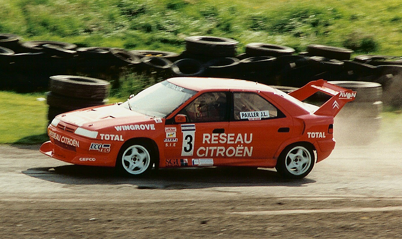 French rallycross driver Jean-Luc Pailler at Brands Hatch in his Citroën Xantia.